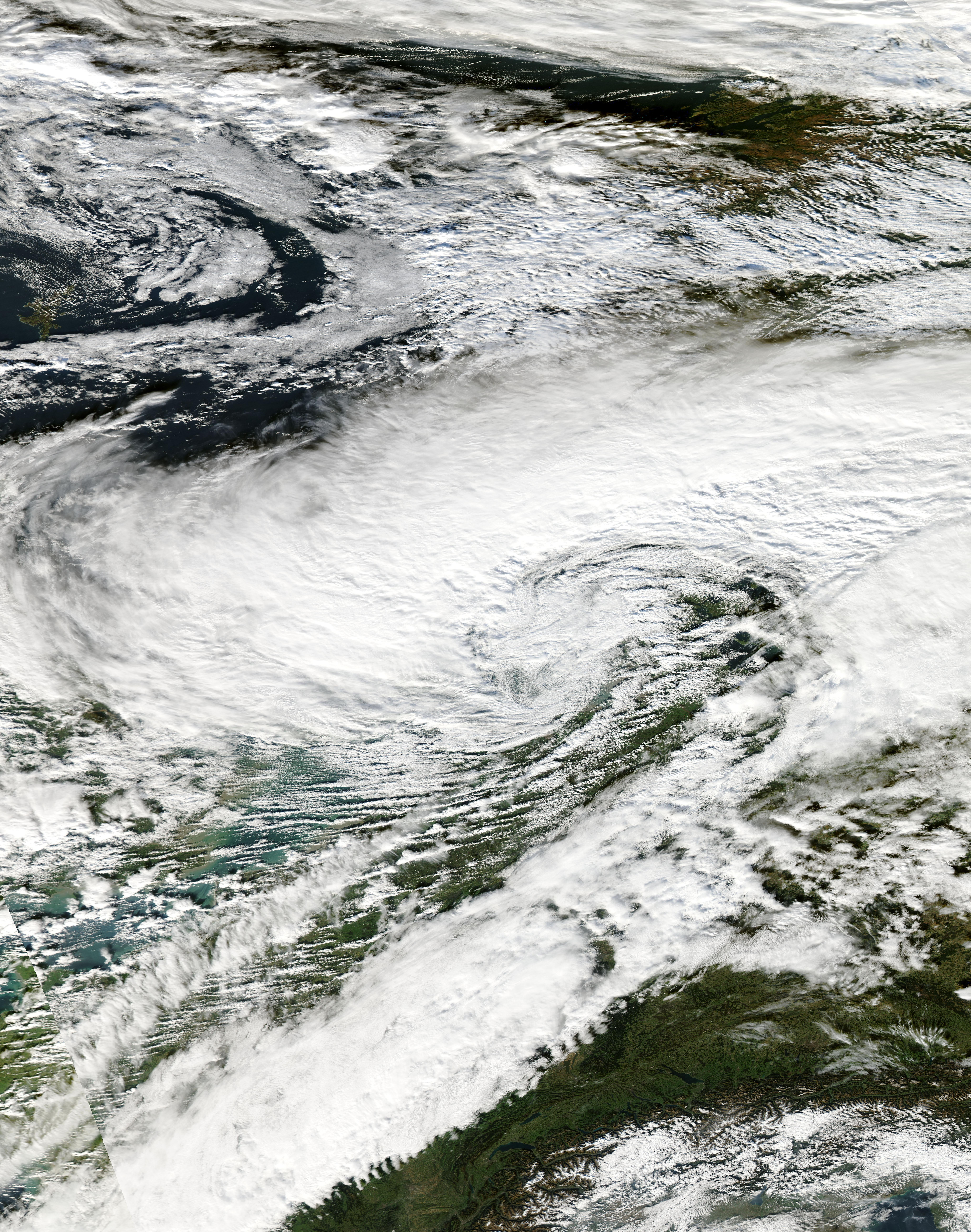 October 28 2013 storm over europe Aqua/Modis 12:10 UTC